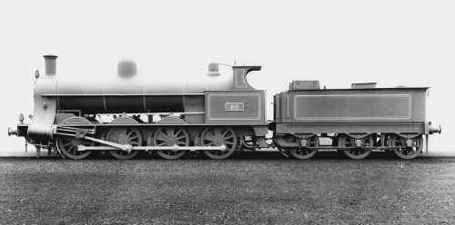 Photograph of LNWR locomotive No. 50 A Class